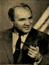 Petre Prlichko